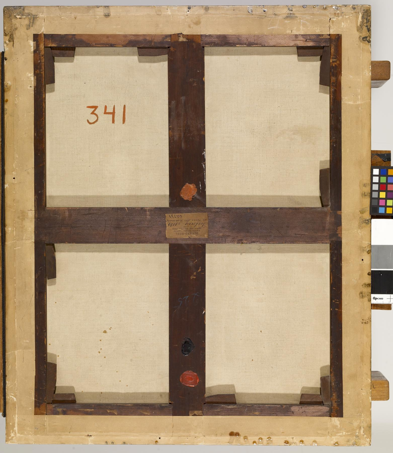 By the mid-1600s, the intimate lives of the middle class joined the raucous lives of the poor as subjects for painting. Here, an attentive young man tenderly mixes a "restorative" glass of lemonade for the young woman, presumably to convey his own feelings to the "love-sick" young woman under the watchful eyes of a chaperon. Ter Borch was a talented portraitist as well as painter of interiors with figures in satins and other rich fabrics (although the effect is diminished here by an over cleaning of the surface decades ago). The models for the young people were the artist's half sister and brother, Gersina and Moses, who were also painters. A first version of this composition was painted around 1663. With the assistance of his workshop, Ter Borch then made additional versions with small variations.